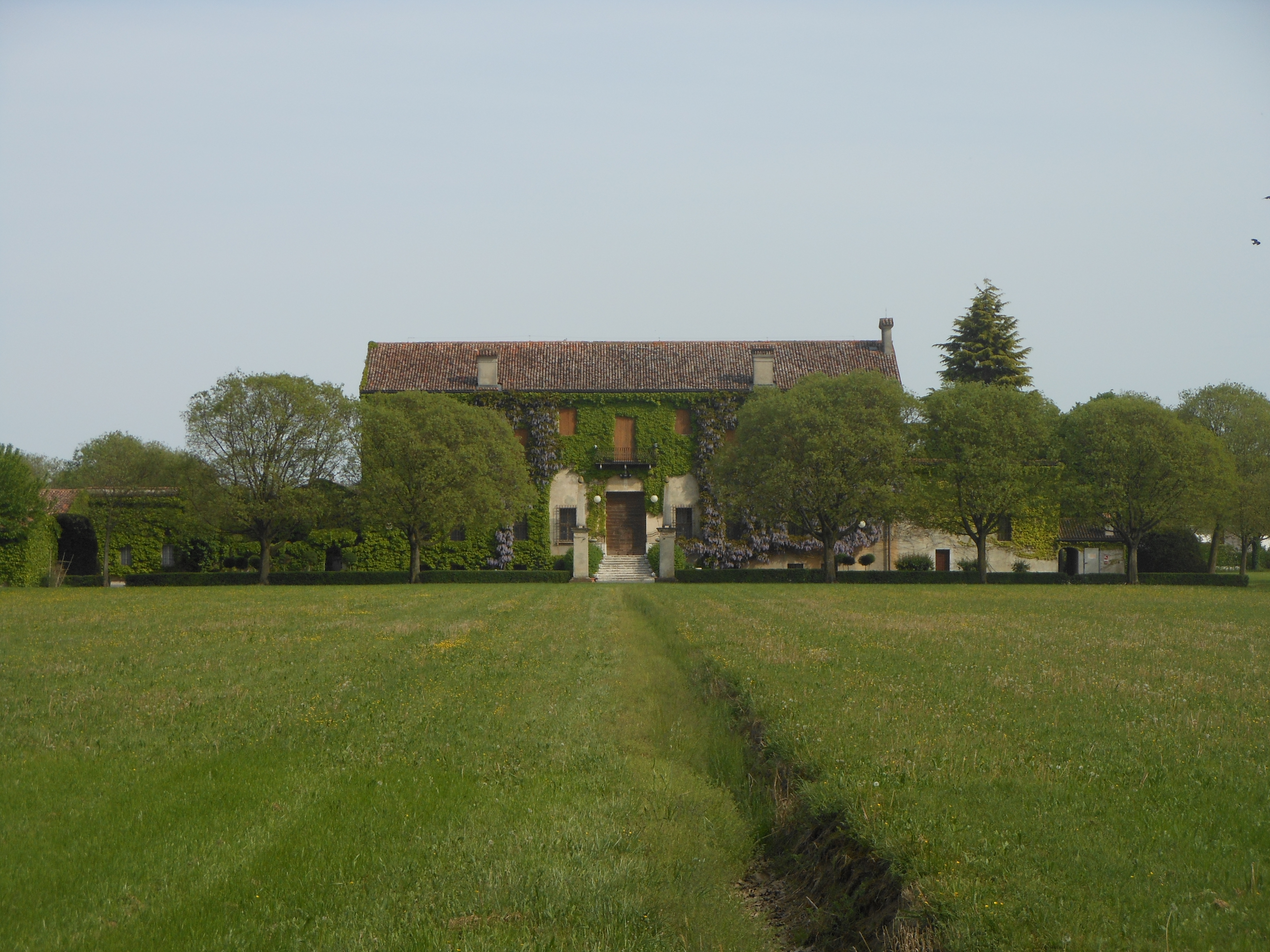 Corte Schiarino 1